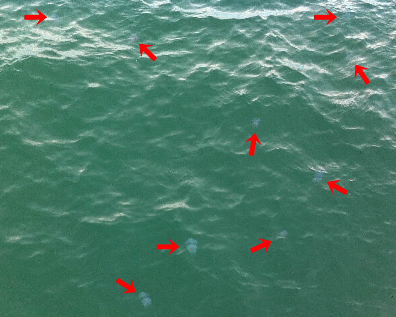 Arrowed Rhizostoma pulmo jellyfish, viewed from Pont del Petroli structure, Badalona, Catalonia